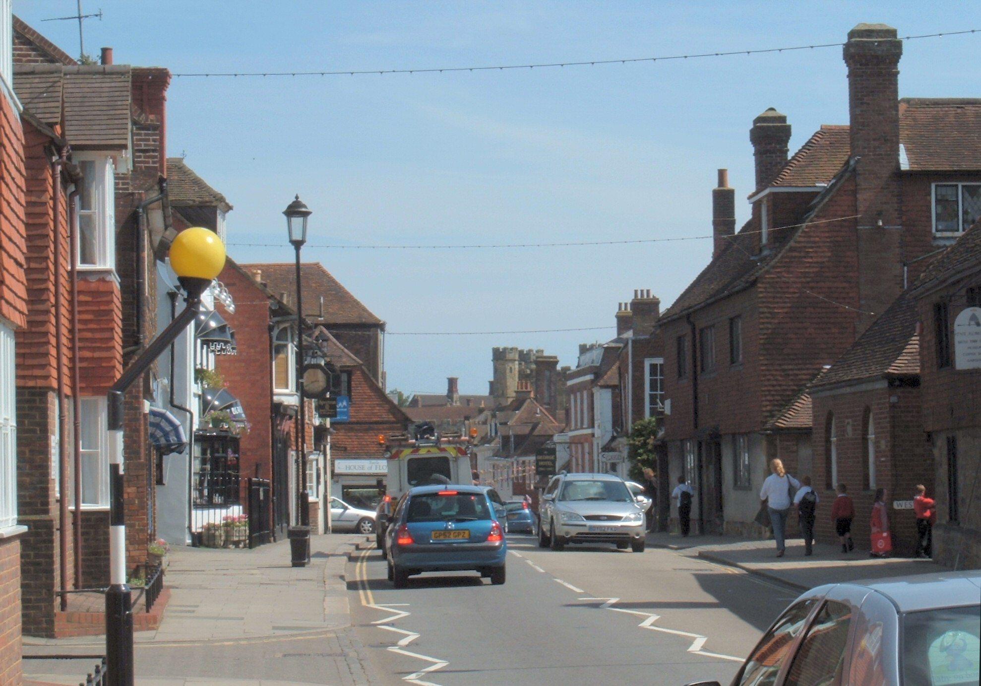 View along the high street towards Battle Abbey in Battle, East Sussex, England. Taken by contributor.